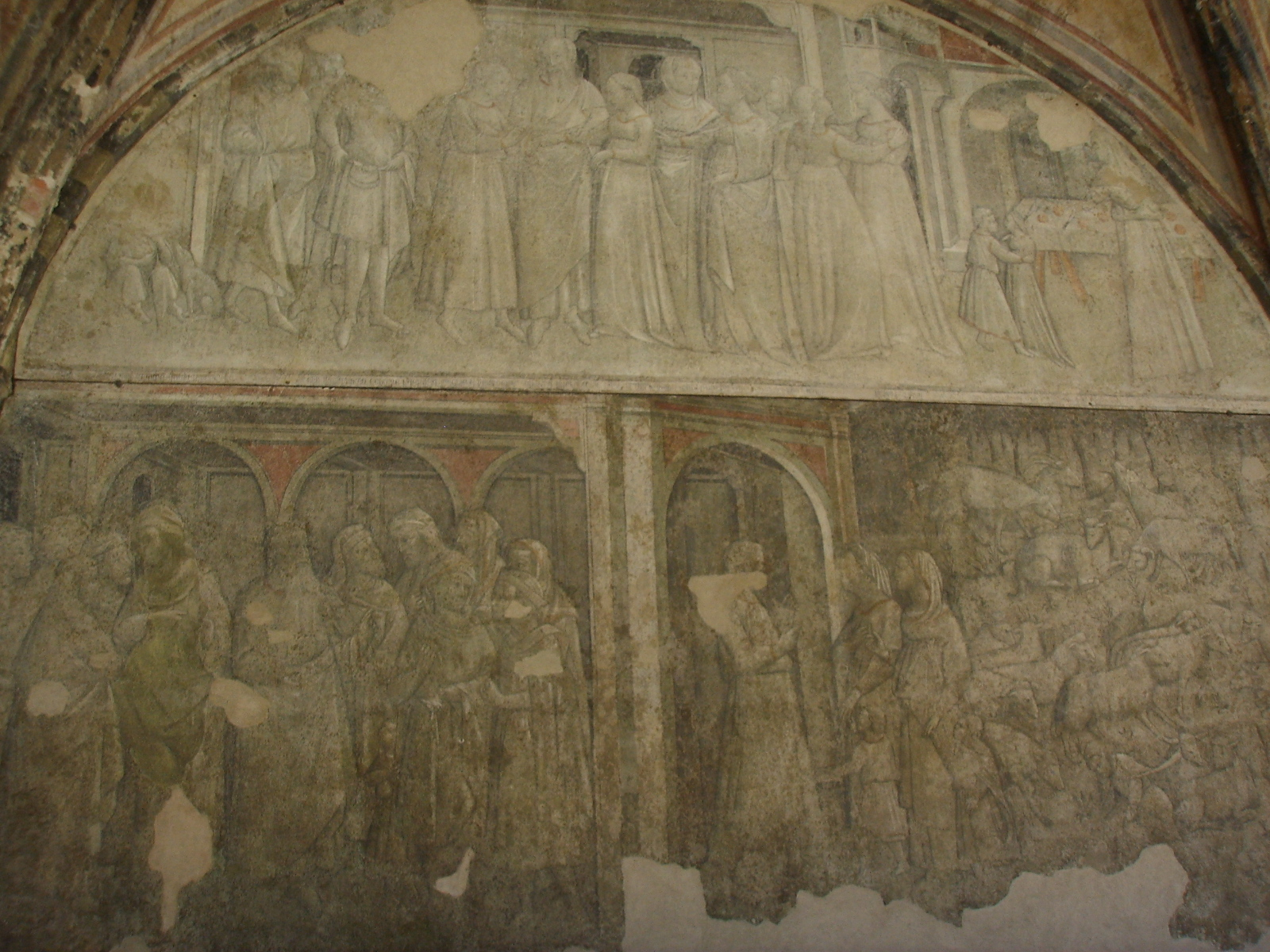 Santa Maria Novella church, Chiostro Verde (green cloyster), fresco by paolo uccello, in Florence, Italy